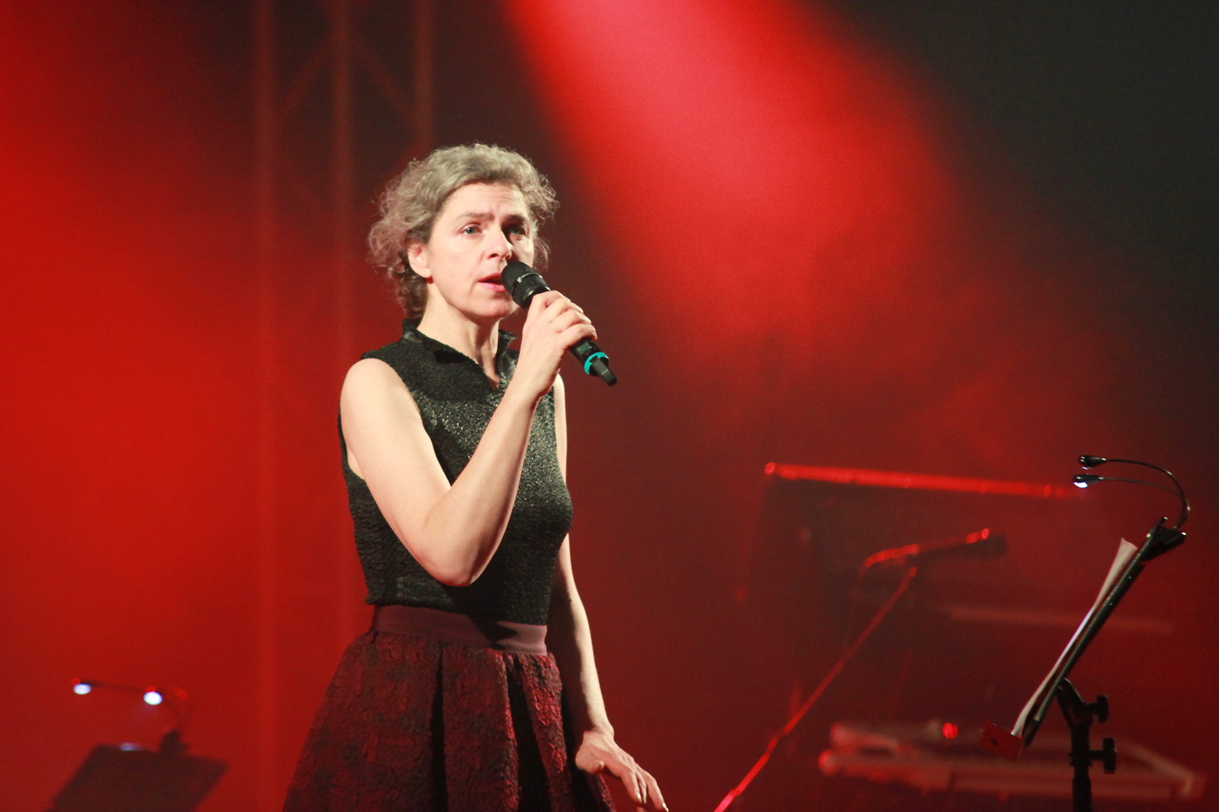 Sabine Lutzenberger, main voice of Helium vola, during a Helium Vola performance in Mannheim on a concert of the "XXX-The Retrospective" tour of Deine Lakaien.